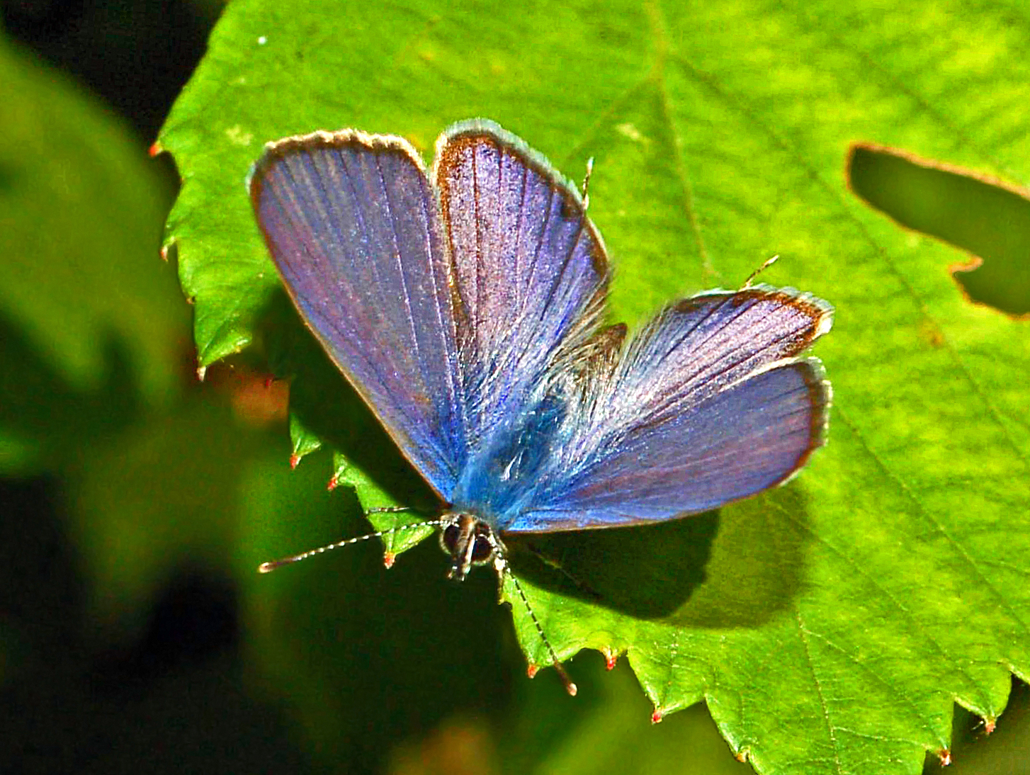 Lycaenidae - Leptotes pirithous. Dorsal view. Genova, Italy